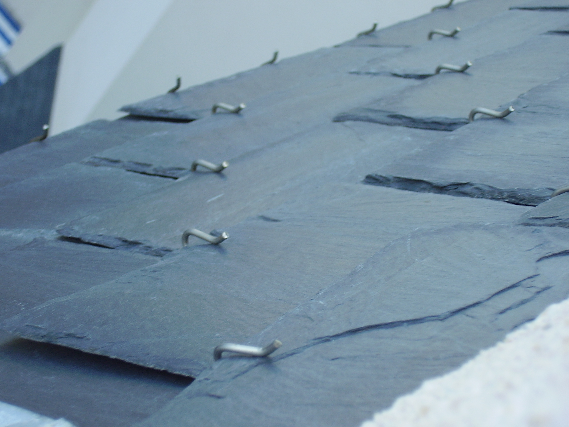 Slate roof shingles held in place with slate hooks, one of the basic methods of slate roof repair.